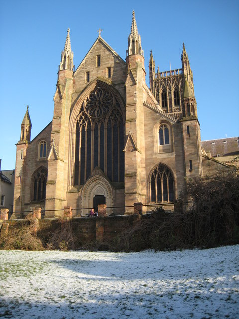 Worcester Cathedral The west front of Worcester Cathedral.